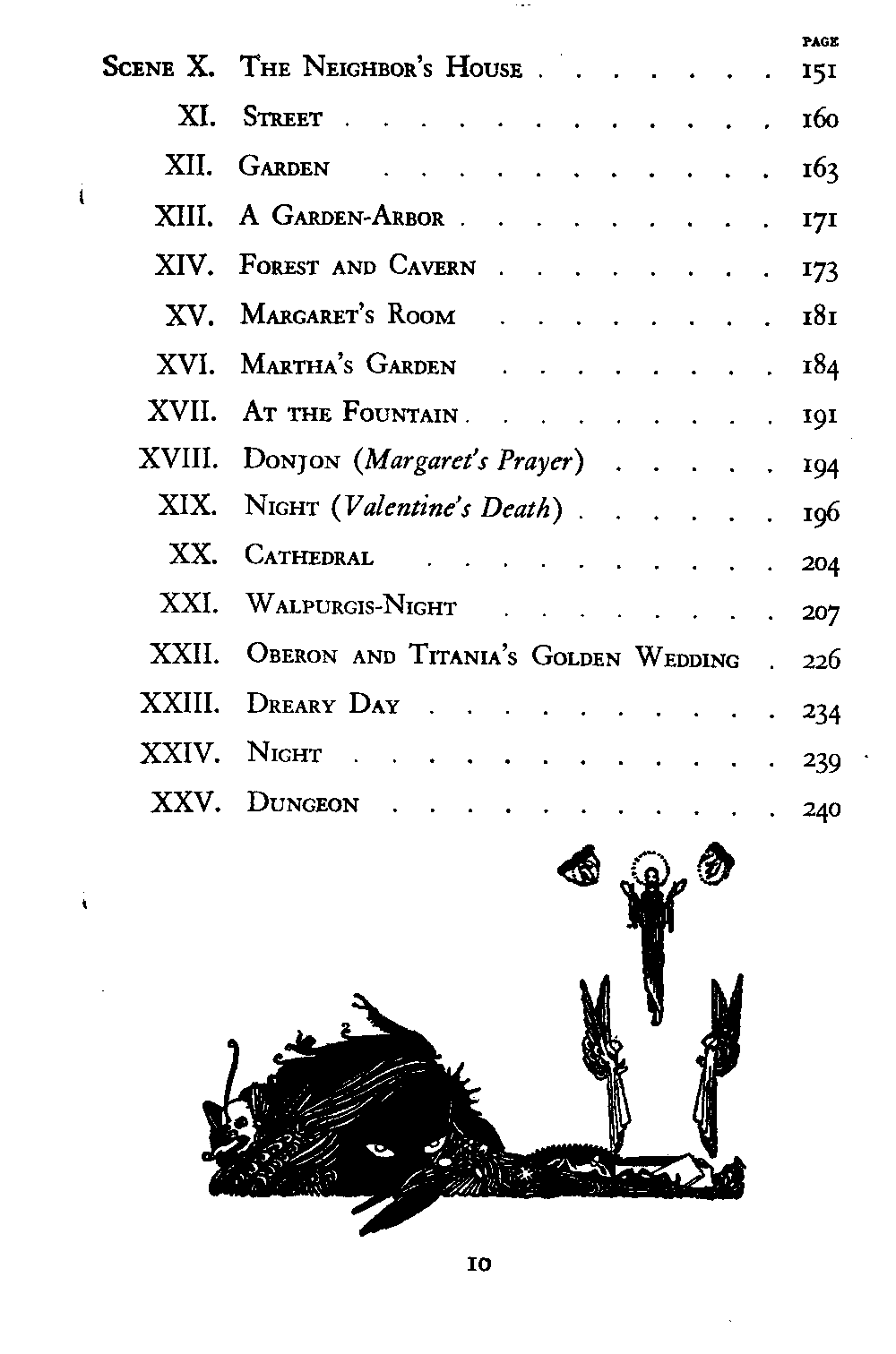 Page 010 of von Goethe's Faust, translated by Bayard Taylor and illustrated by Harry Clarke.